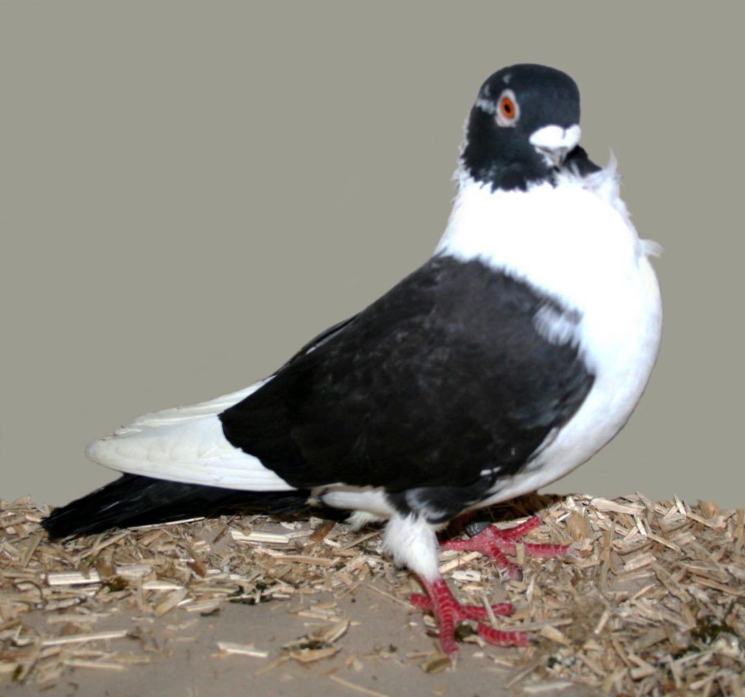 Domino Owl (Black)